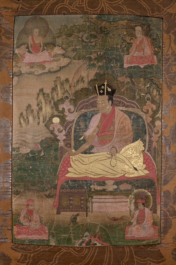 An historically important thangka of the 8th Karmapa who was a noted scholar and artist. He is shown with two of his principle teachers above and two of his four principle students below him. The Siddha adept in the upper left hand corner is (Sangye) Nyenpa Drupchen (the Great Adept Sangye Nyenpa) (d. 1519) who was the main teacher of the eighth Karmapa. The red-hatted monk in the upper right hand corner is Kenchen (Great Knowing One) Chostrup Senge who performed the final ordination rites on the eighth Karmapa when the latter was 22 years of age. The lama in the bottom left is Tsuklak Trengwa, the second Pawo Tulku (a Karma- Kargyudpa incarnate lama meaning hero tulku) who lived from 1504 to 1566 and was a disciple of Mikyo Dorje and a scholar who wrote a history of the Karma-Kargyupa sect. The Lama in the bottom right is Lama Tundra Richen, which may be (?) another name for the orange hat Yalta Talk Drape Tundra in the second Thangka who was recognized by Mayo Drone and was also one of his chief disciples.